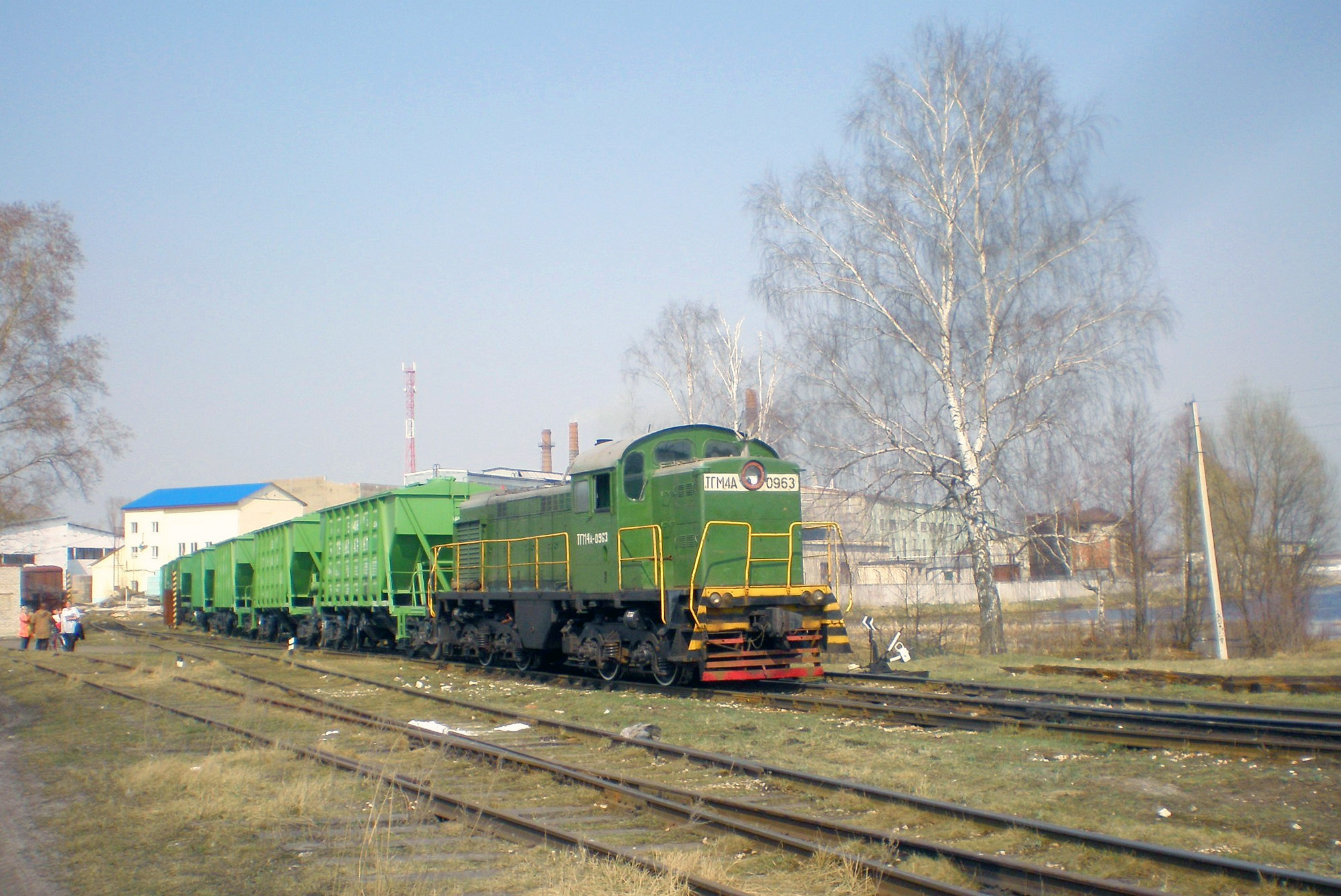 TGM4A-0963 shunter on Cherusti to Urshelskiy branch (access track of Urshelskiy glass works), Shunting work in Urshelskiy.